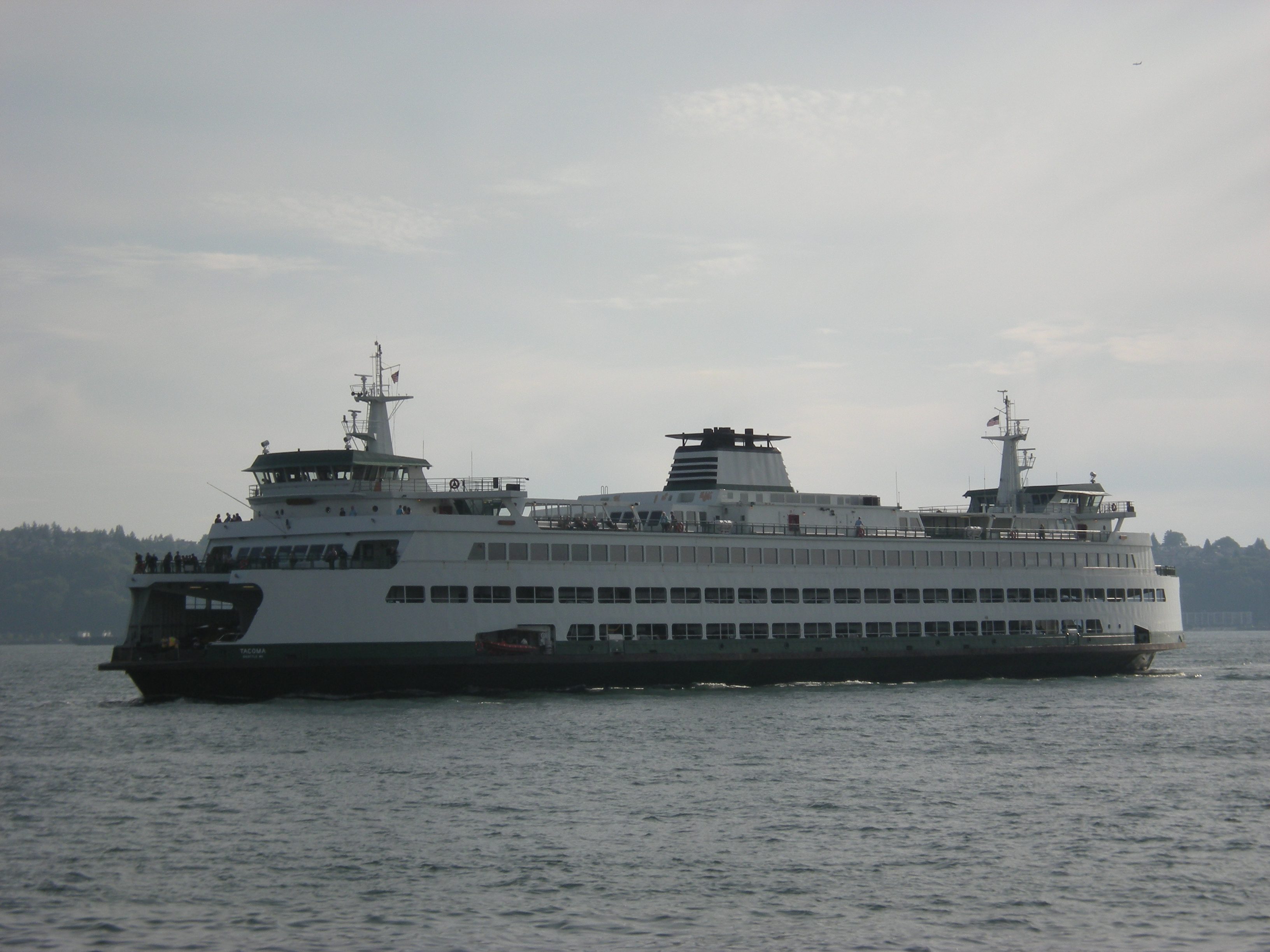 Washington State Ferry Tacoma on Elliott Bay.